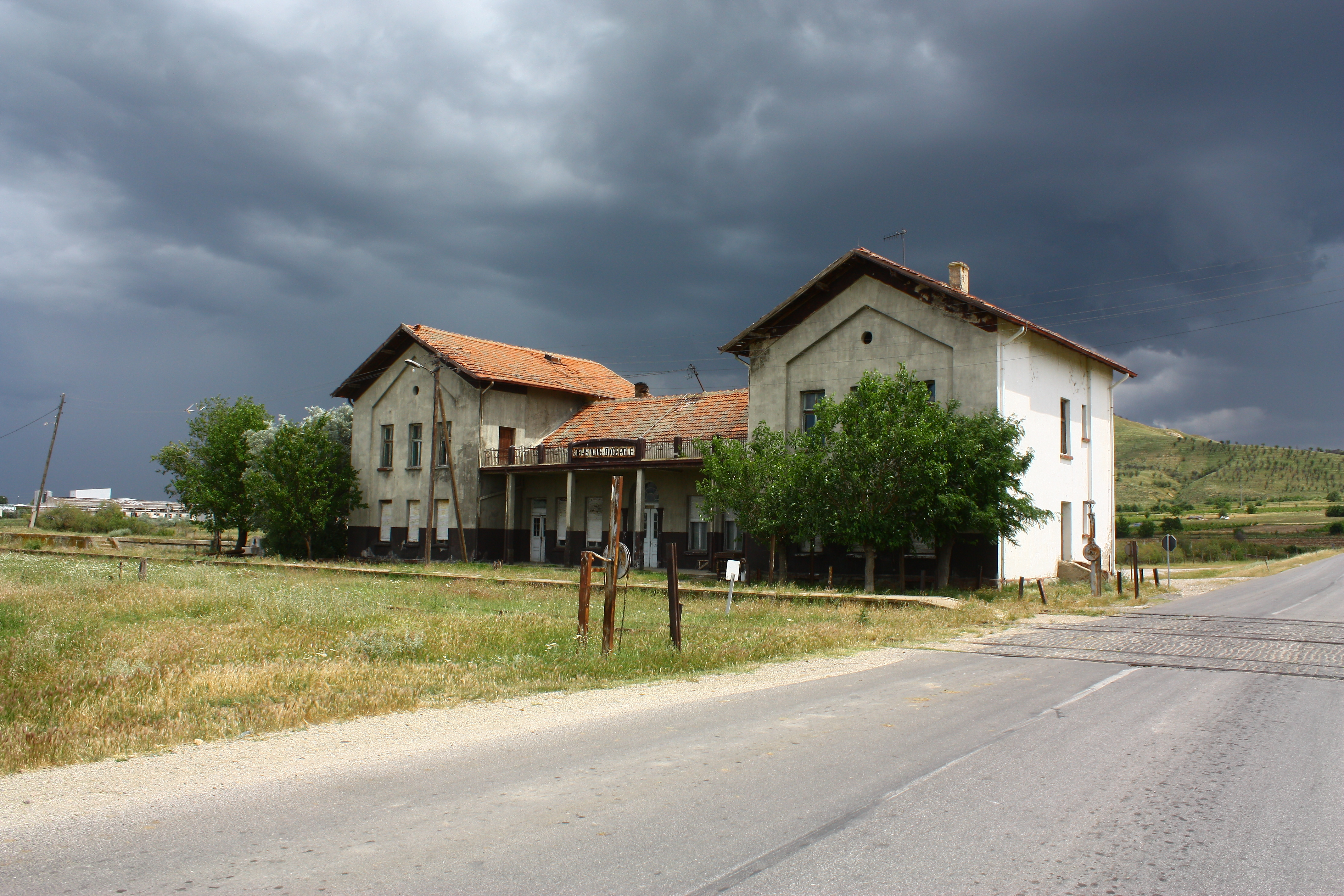 Ovče Pole Train station near Amzabegovo, Macedonia This image is uploaded as part of the picture contest Wiki Loves Cultural Heritage in Macedonia 2013. English | македонски | +/−